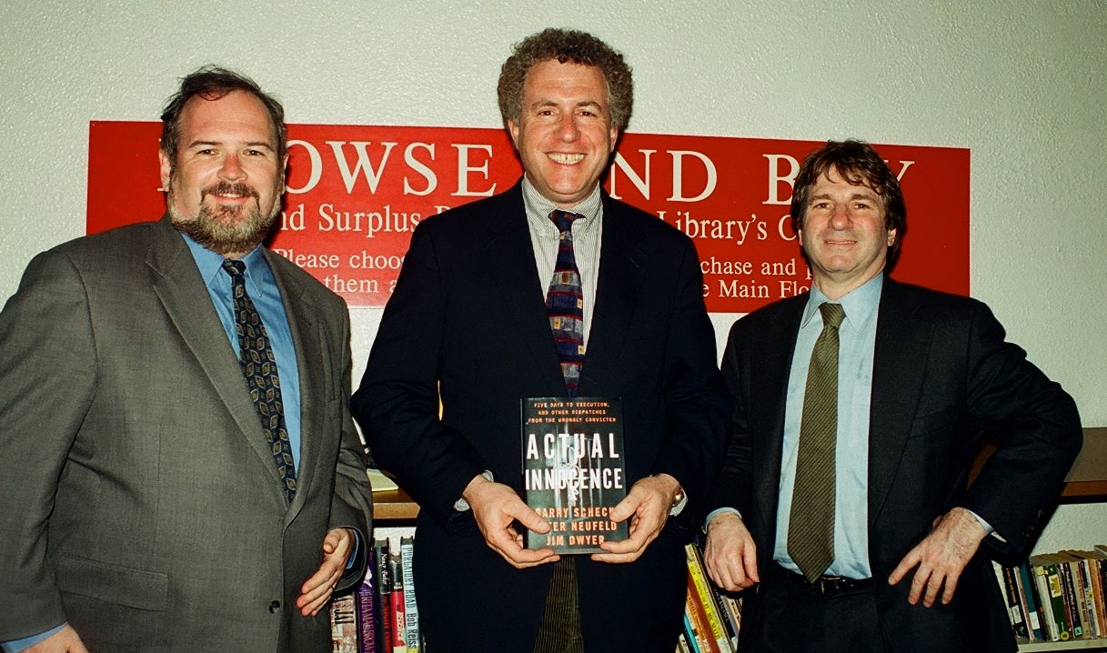 Wash D.C. 2001 Innocence project has a wiki page